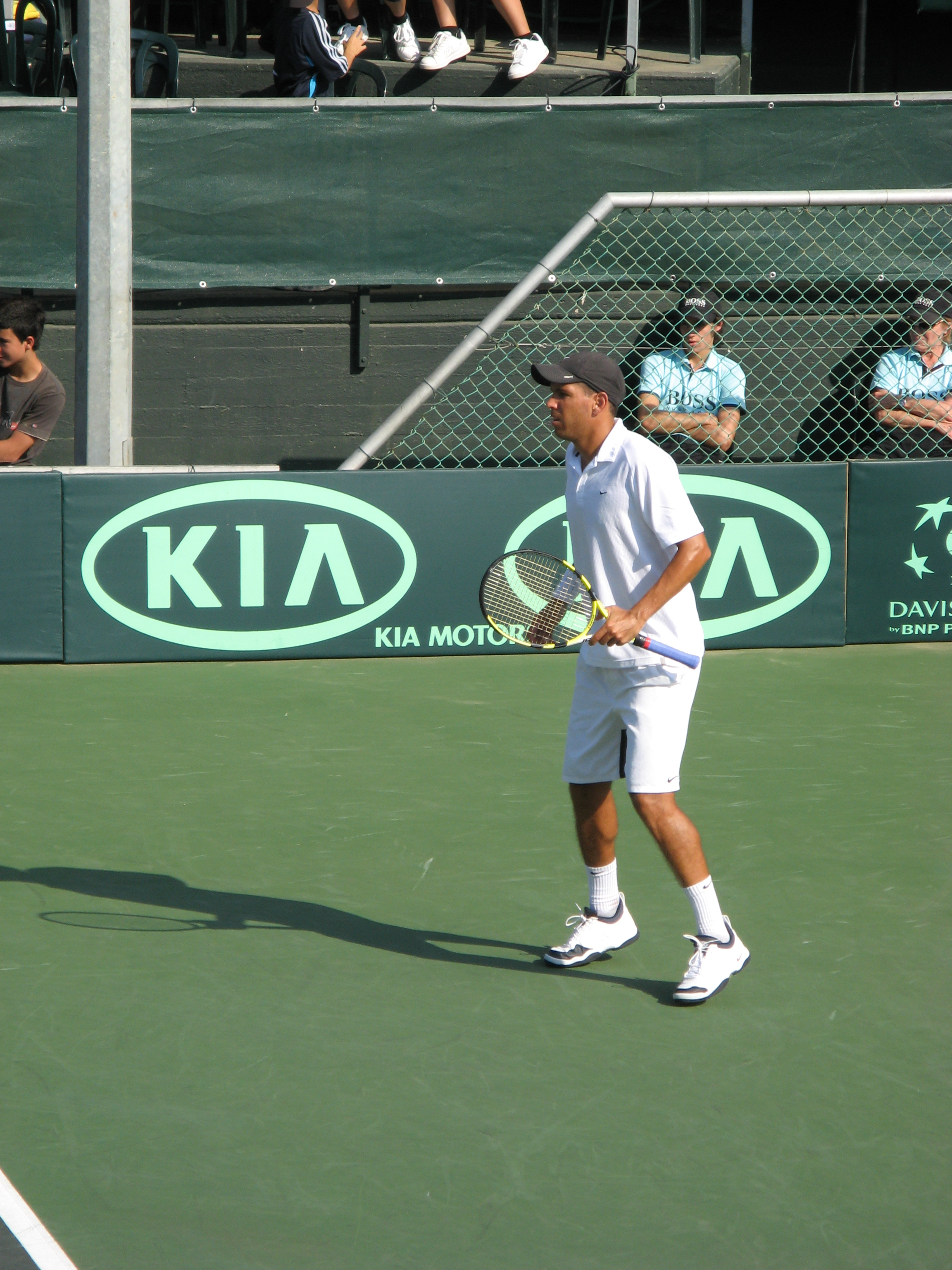 Israeli Tennis player Harel Levy during a Davis Cup match against Mauricio Echazu & Matias Silva of Peru